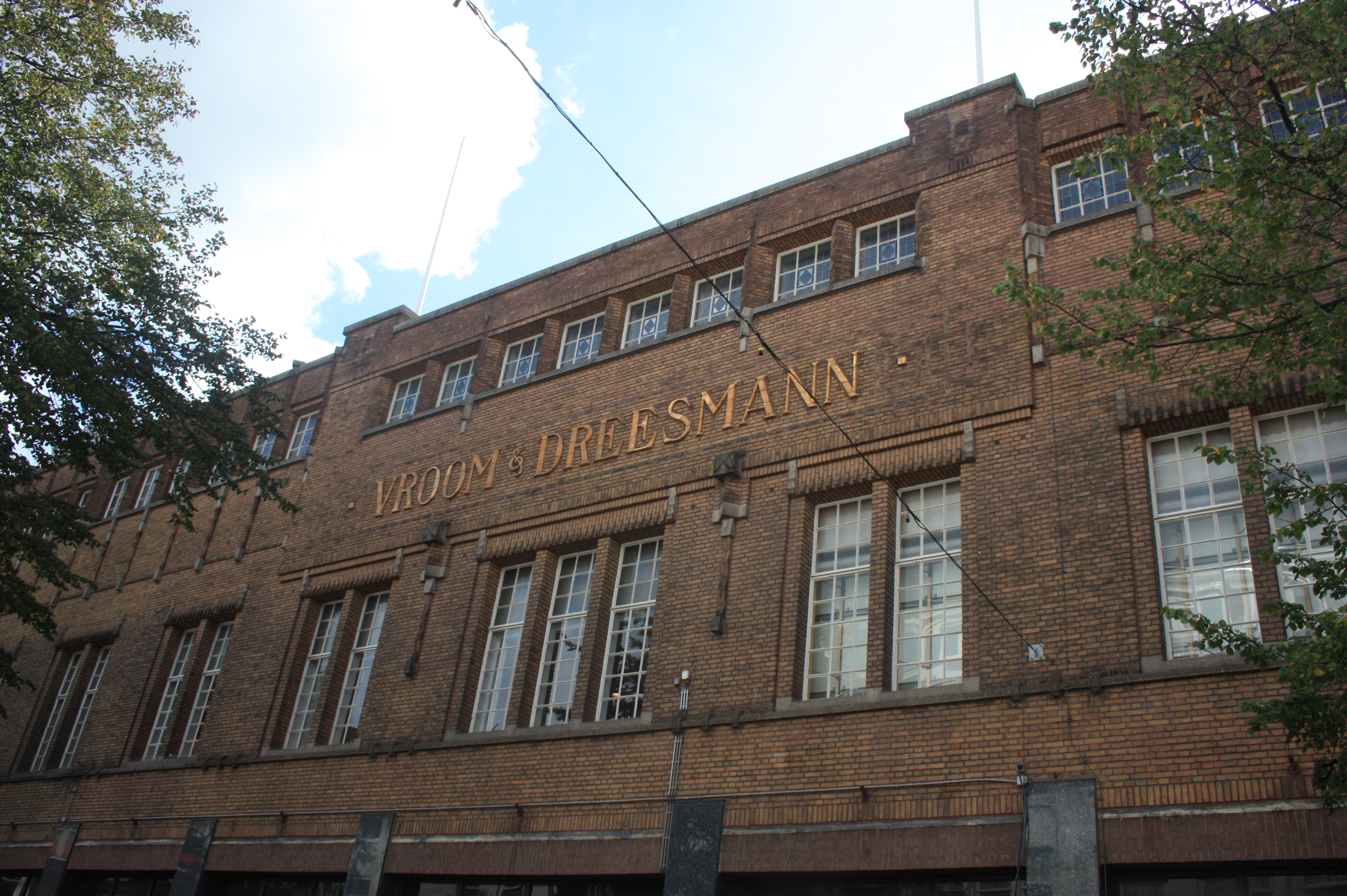 Vroom & Dreesman, 147 Laat, Alkmaar